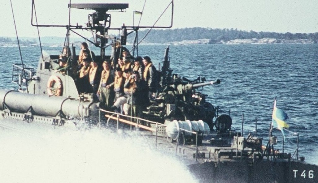 Swedish MTB with Bofors 40 mm m/36 This is an image of the protected Swedish ship T 46, with call sign SMAX .